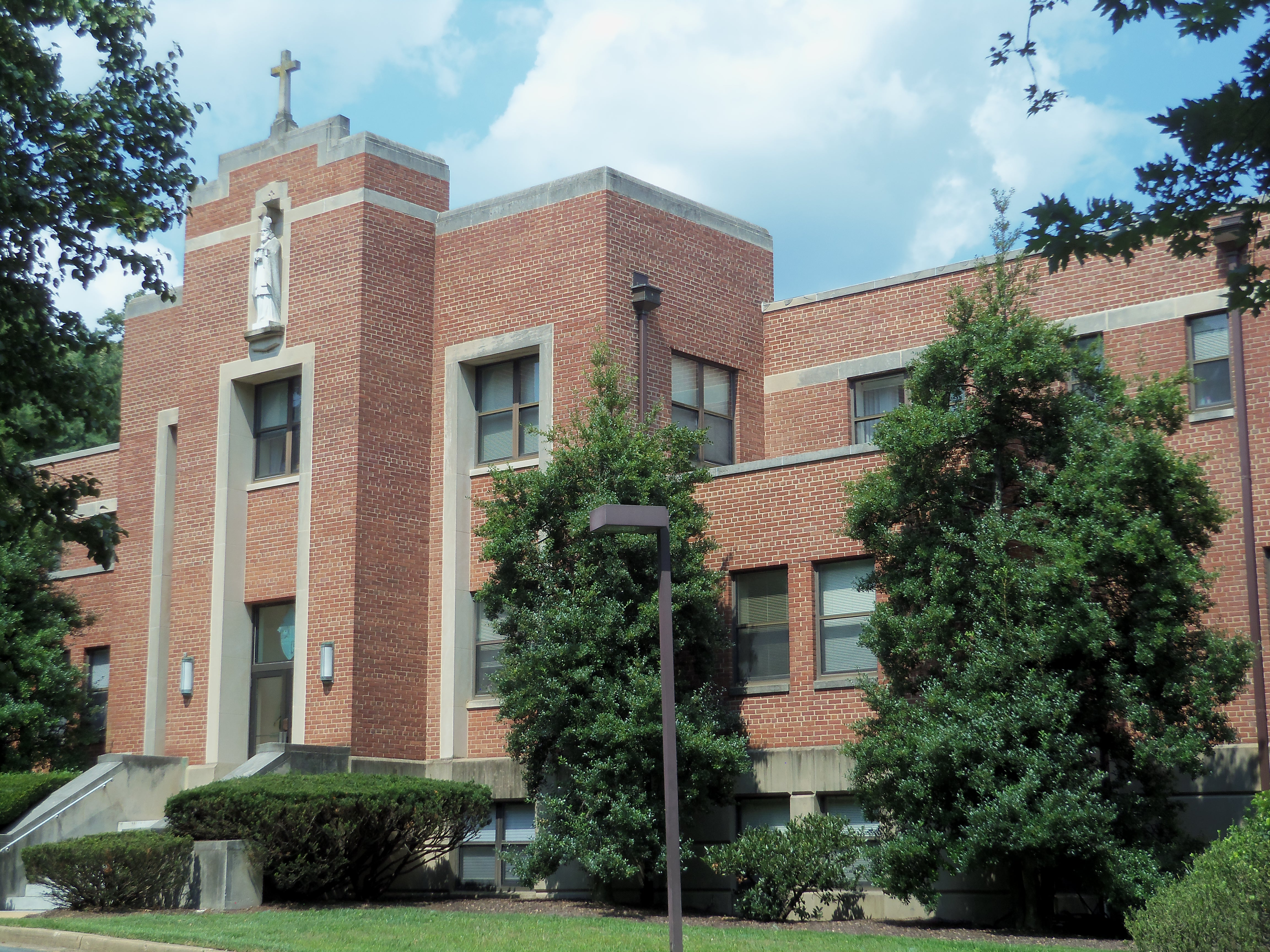 The pastoral center of the Archdiocese of Washington in Hyattsville, Maryland.